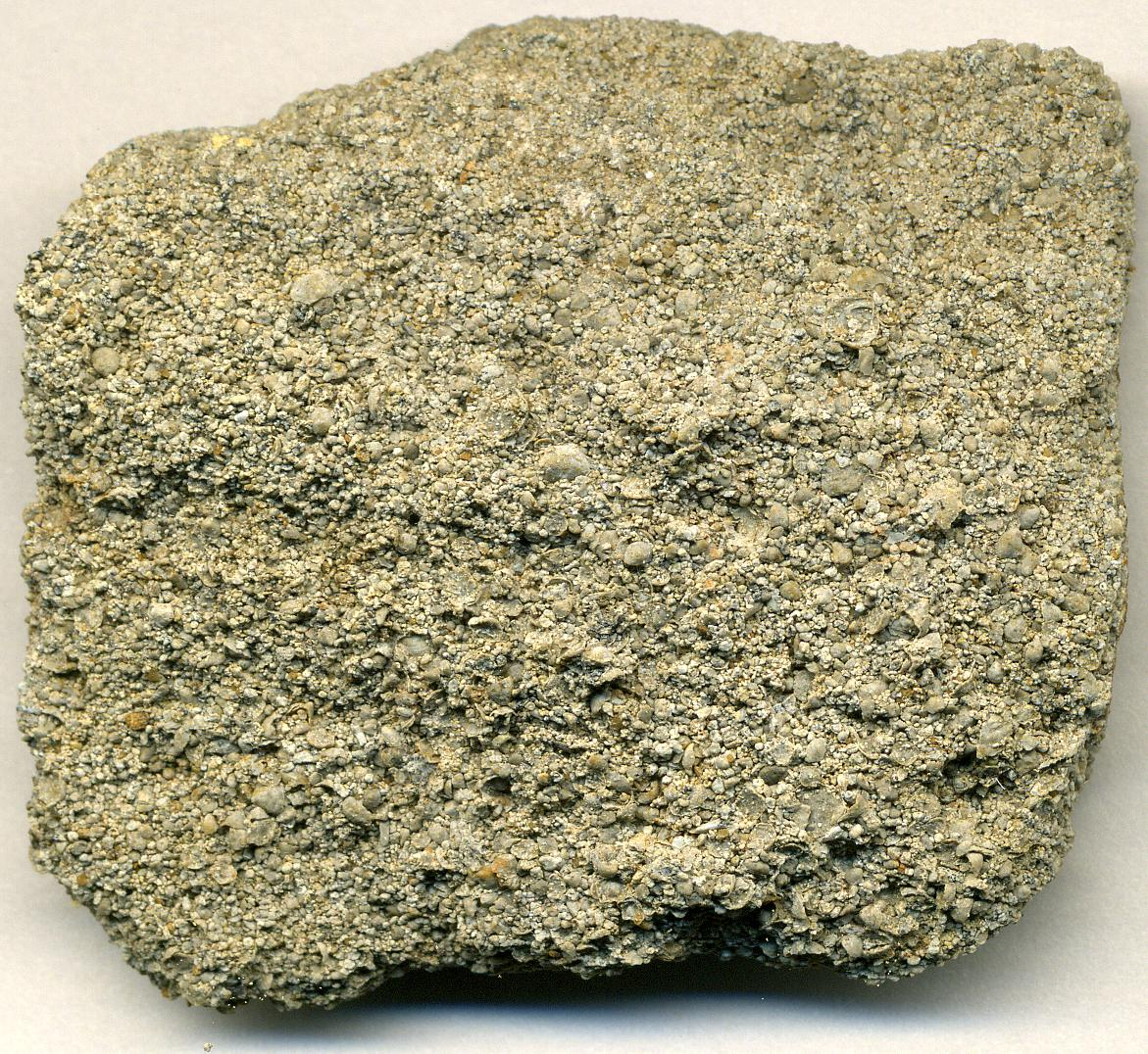 This comes from just south of Ercaicun, ~4 km WSW of Haikou, Kunming City Prefecture, east-central Yunnan Province, southwestern China. This rock was deposited not long after the Cambrian Explosion (the sudden, evolutionary appearance of abundant fossil life near the Precambrian-Cambrian boundary). On a global scale, phosphorite deposition was at its maximum, volumetrically, during the Neoproterozoic and Cambrian.